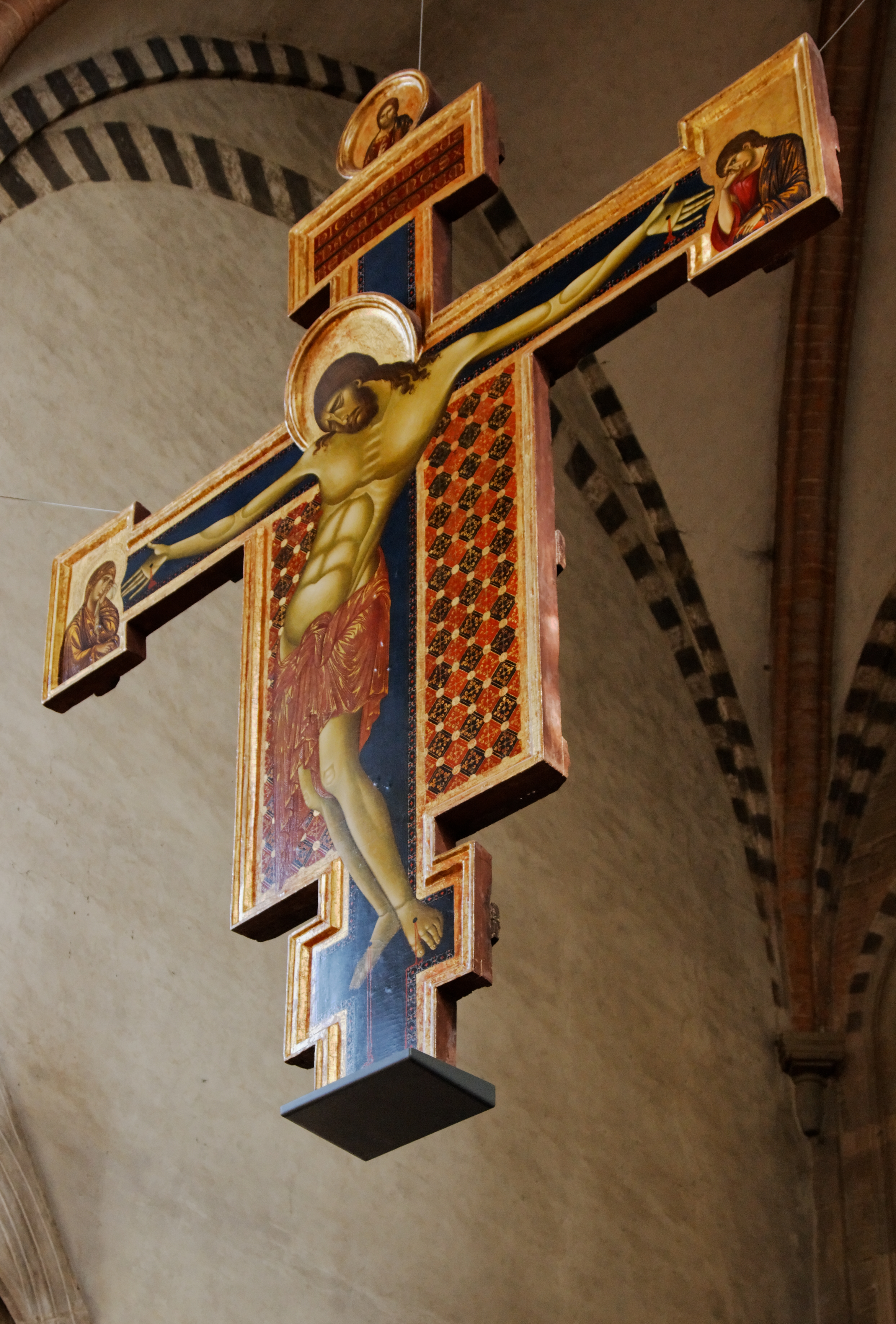 Cimabue's Crucifix located in San Domenico church in Arezzo, Italy, aged 1272 and assigned to his creator only in 1927.